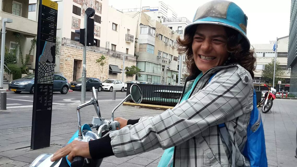 Israeli poet Efrat Mishori on a motorbike